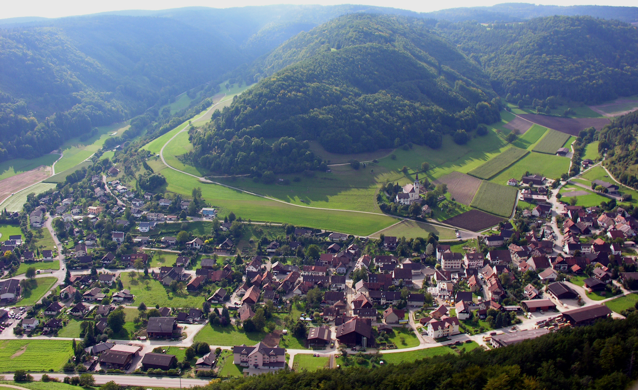 Switzerland, Canton of Schaffhausen, Aerial view of Merishausen